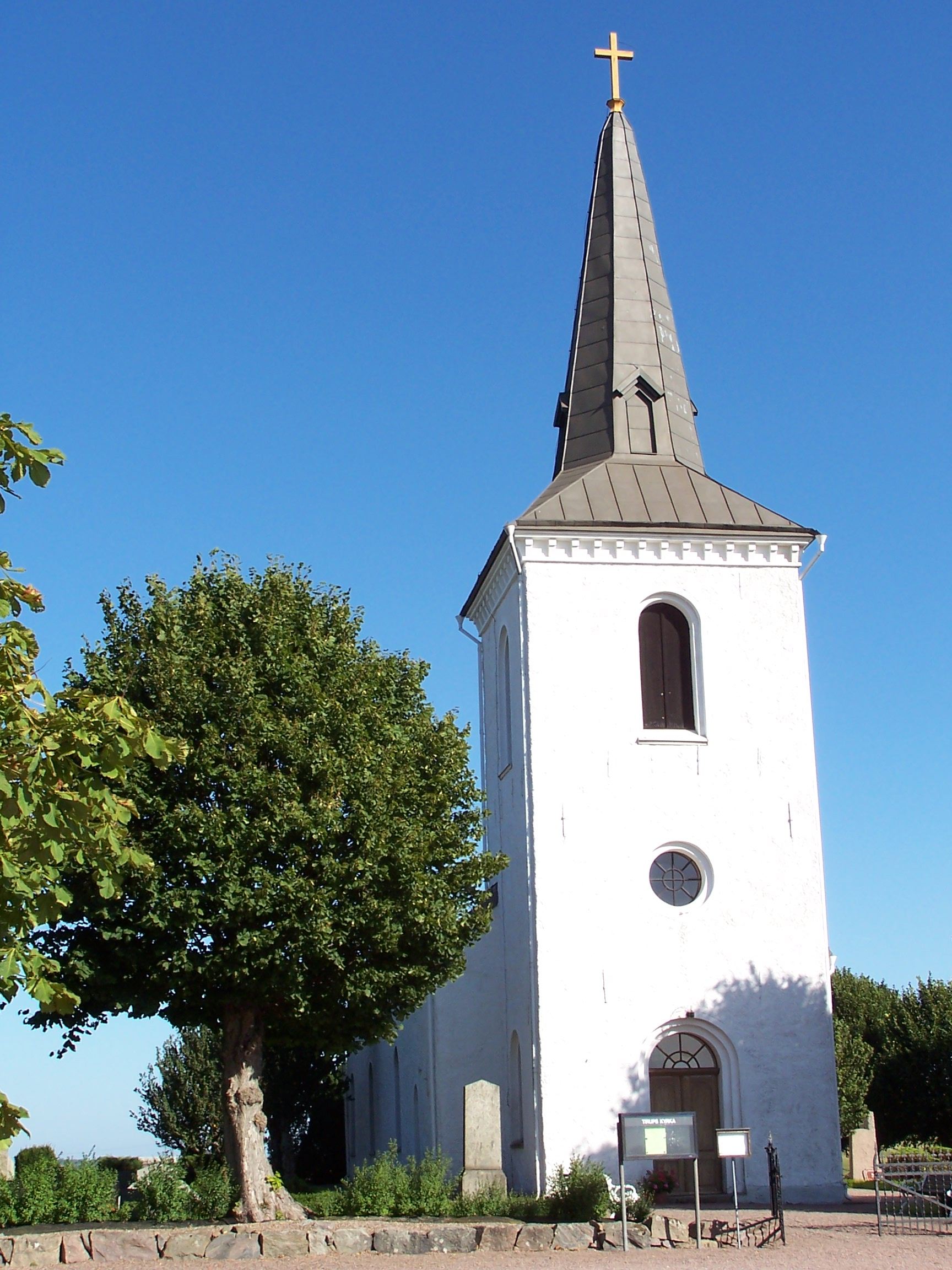 Tirups kyrka - Exterior from west.